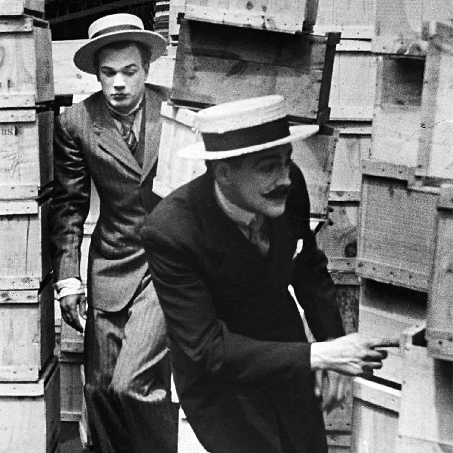 Photograph of Joseph Cotten and Edgar Barrier in costume during the shooting of film sequences for the Mercury Theatre production Too Much JohnsonFeature story is titled "Metro-Goldwyn-Mercury" (no author credit)Photo caption reads as follows:One sequence was shot in Washington Market, despite a local gang of tough cookies who wanted to act, too. M. Dathis (Edgar Barrier) is chasing Mr. Billings (Joseph Cotten), who is behind him.